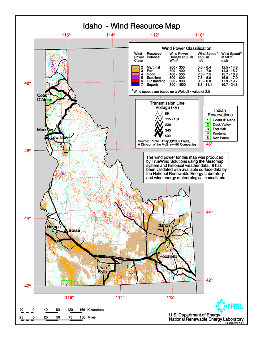 Average annual wind power distribution for Idaho, 50m height above ground, also showing location of existing electrical transmission lines